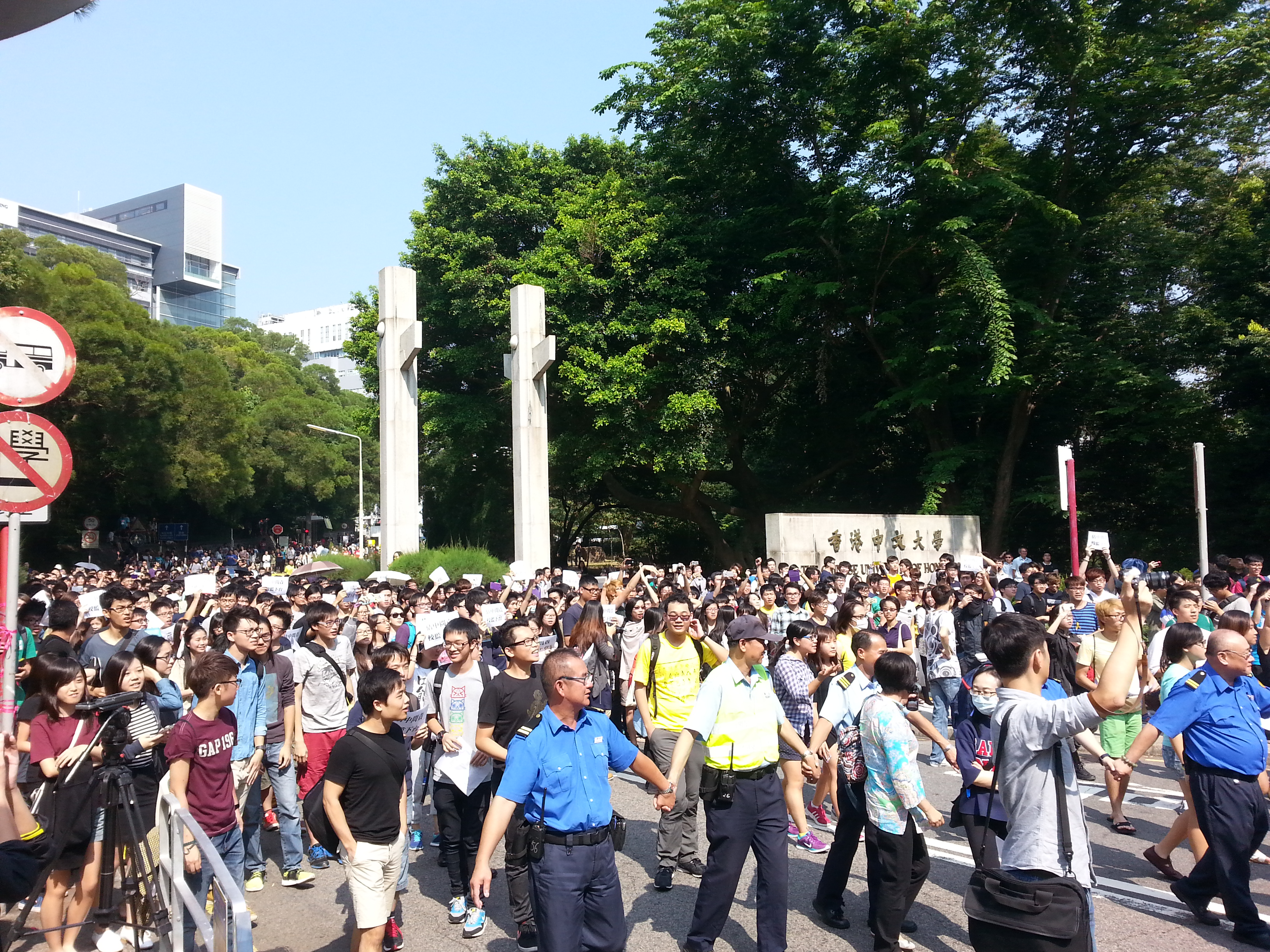 Crowd at CUHK front gate surrounding Leticia Lee